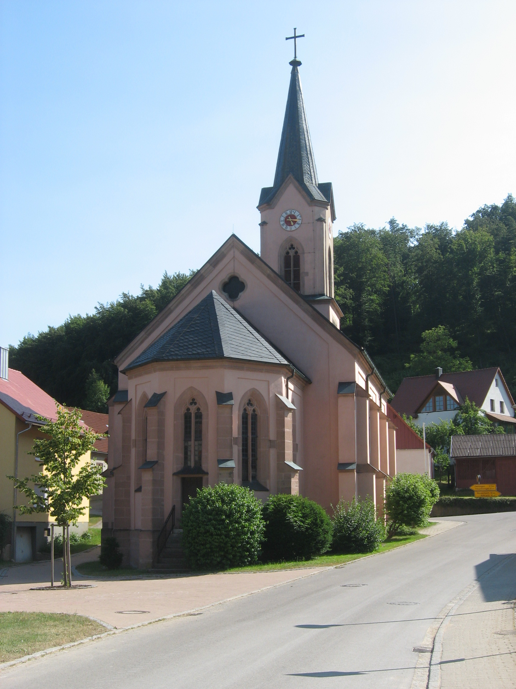 St. Zeno church in Windischhausen (Bavaria, Germany)